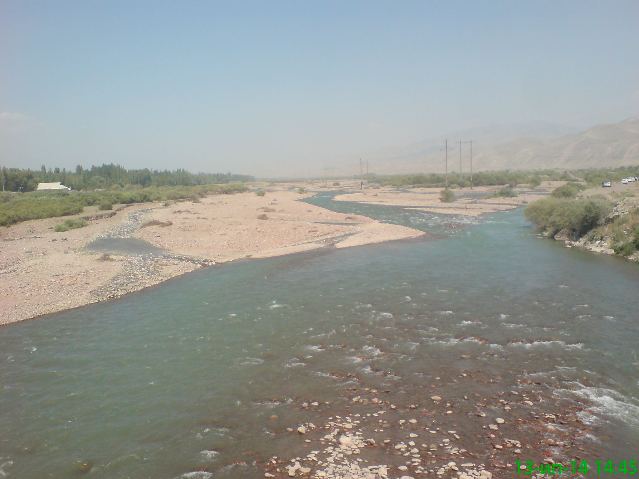 Angren river in the Angren city, Tashkent province, Uzbekistan